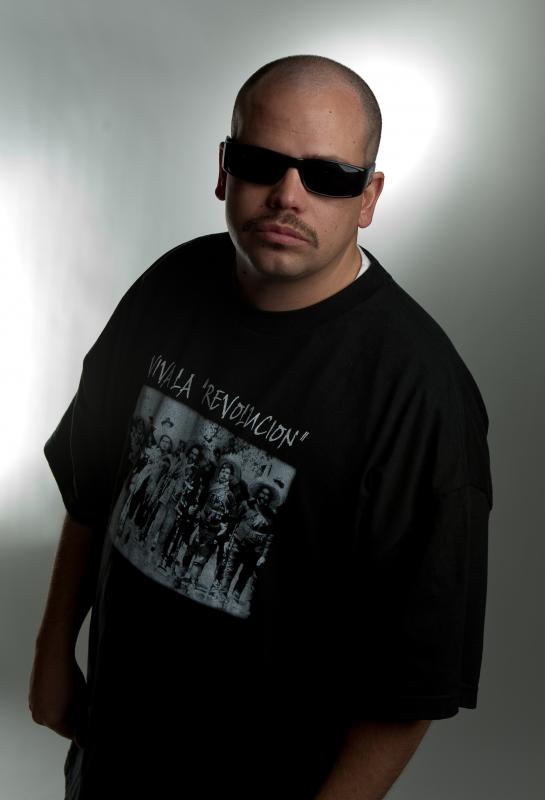 SERIO at 2012 photo shoot for Don't Hate Me Because I'm Mexican